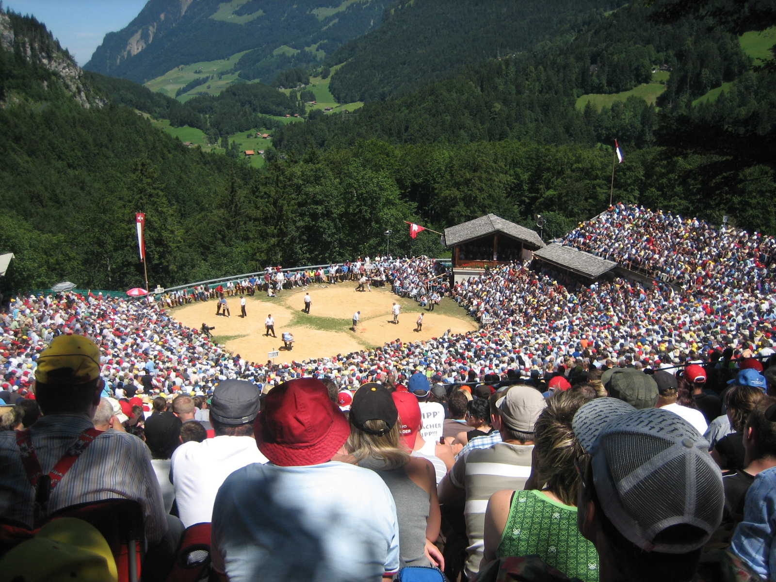 Brünig wrestling festival "Brüningschwingfest" in 2009 at the Brünig Pass (Switzerland)